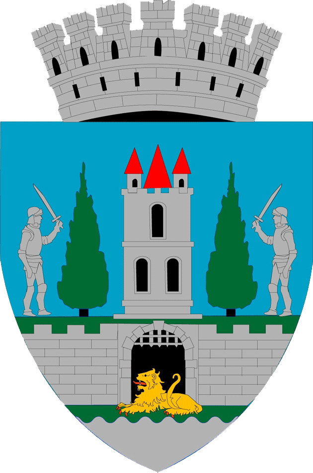 Coat of arms of the city of Satu Mare, Romania